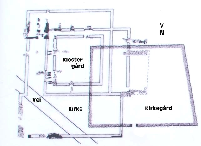 Tvis Monastery, Denmark